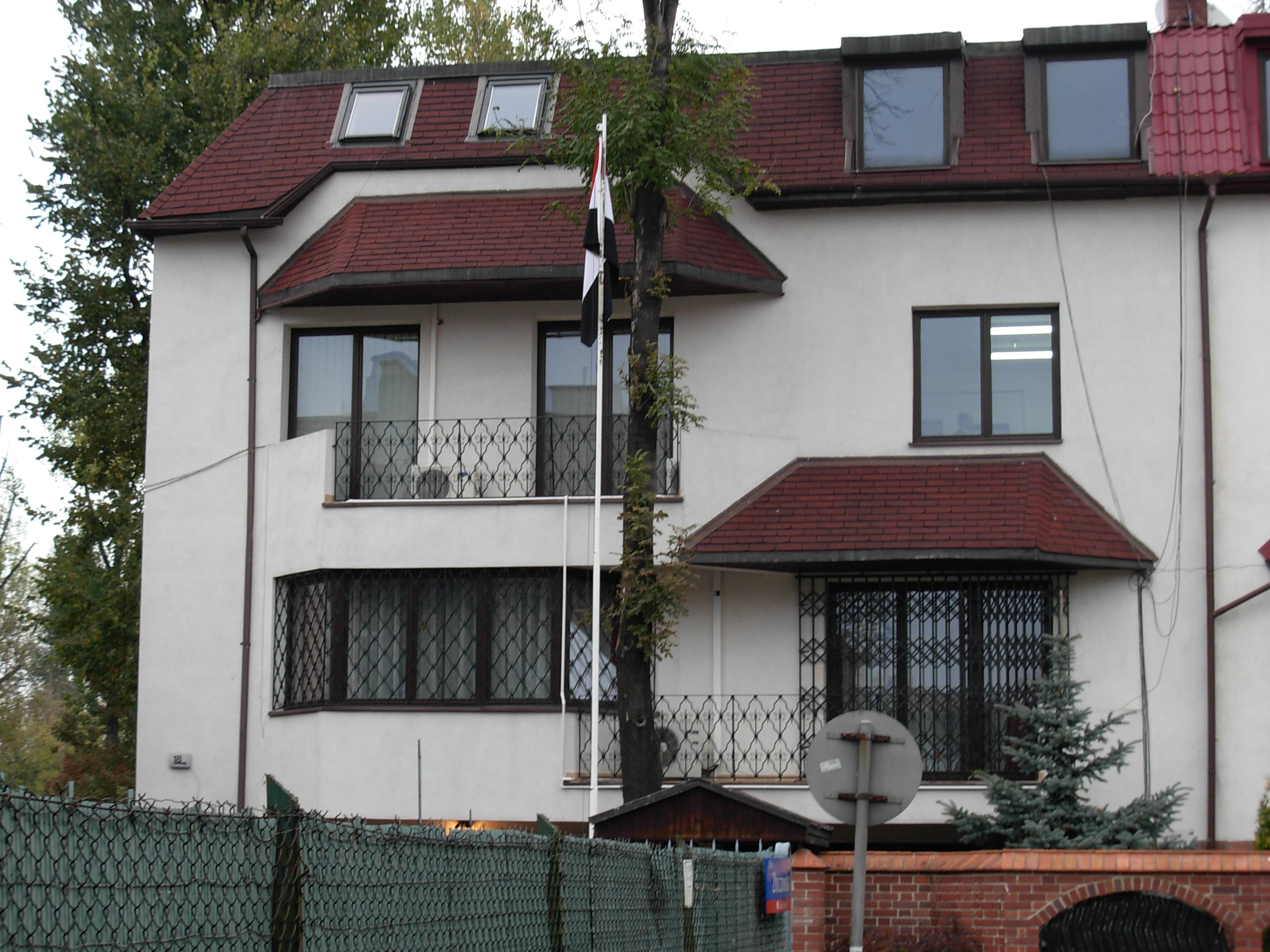 Embassy of Egypt in Warsaw